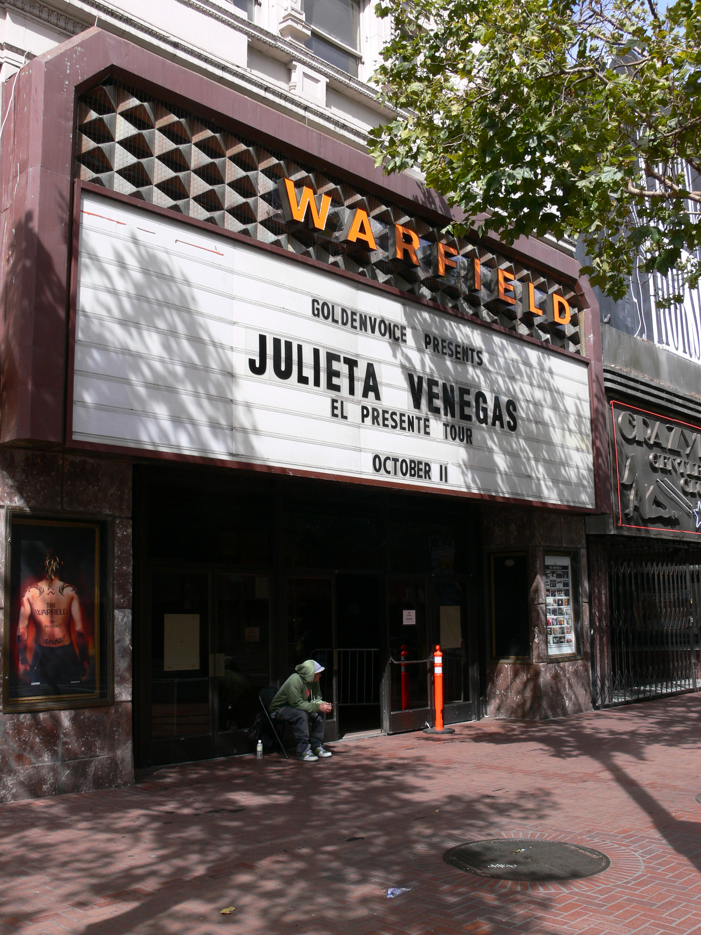 The Warfield (a.k.a. Warfield Theatre), 982 Market Street, San Francisco, California. In the Market Street Theatre and Loft District.